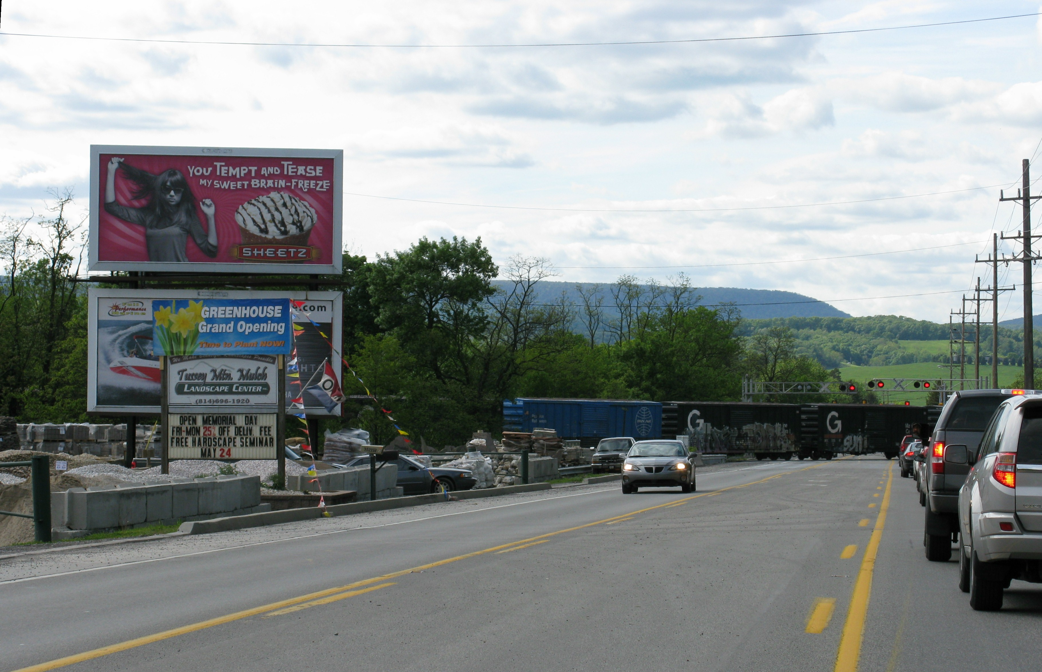 SR 36 approaching a railroad crossing, Vicksburg, Pennsylvania